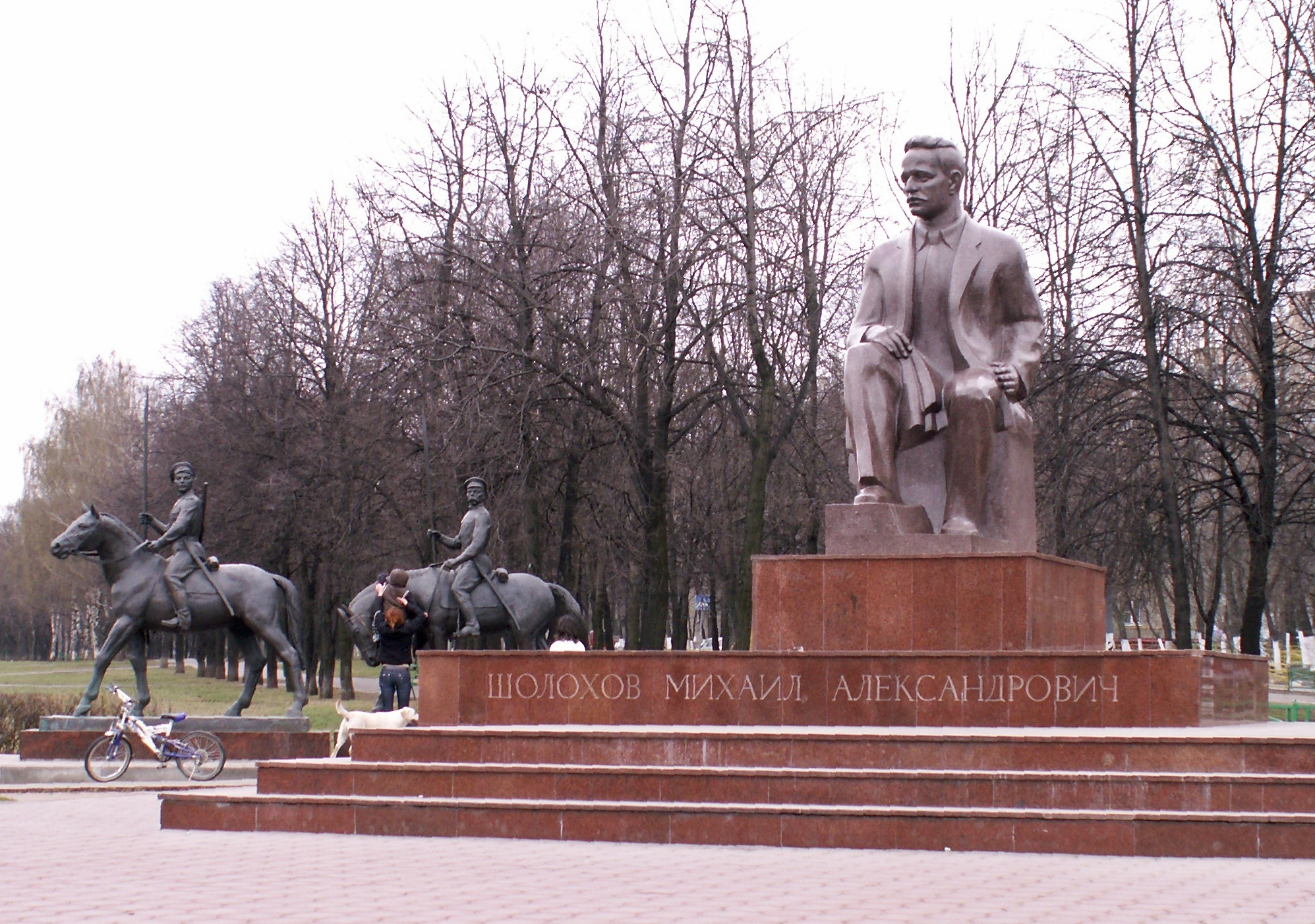 Monument of Mikhail Sholokhov in Moskow (Volzhsky blr.)